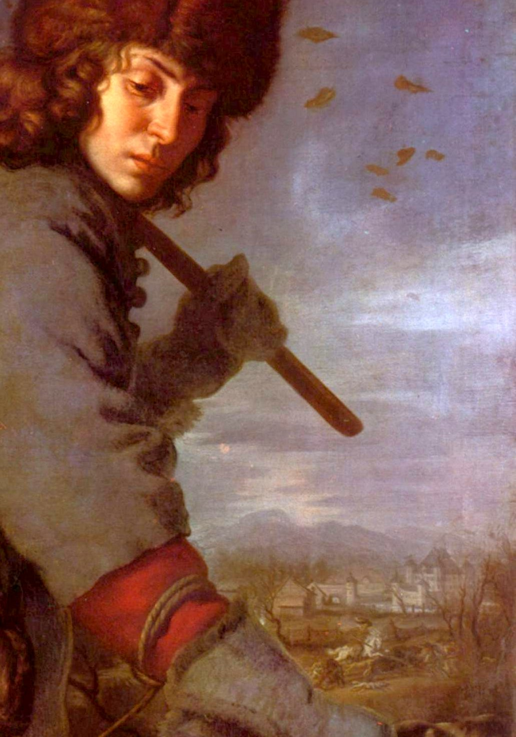 "The Month November" from cycle "The Months", oil on canvasmedium QS:P186,Q296955;P186,Q12321255,P518,Q861259, 1643 (detail)